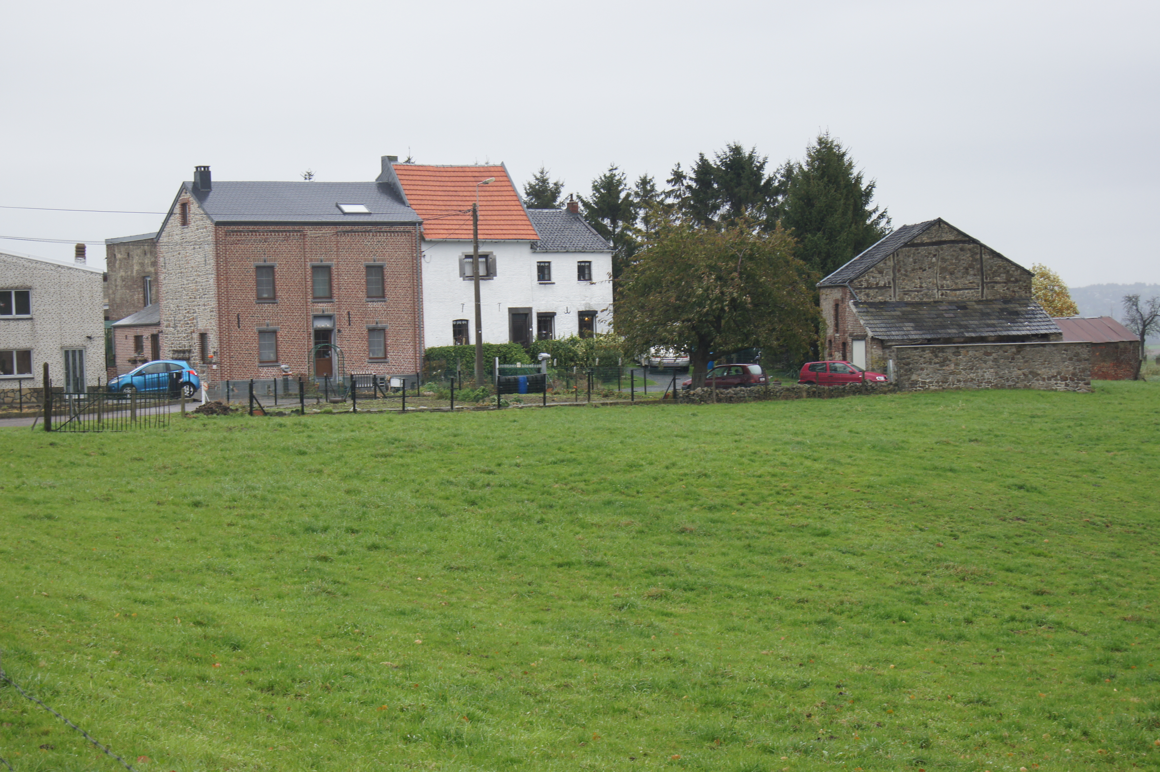 Blegny (Trembleur), Belgium: Old Court